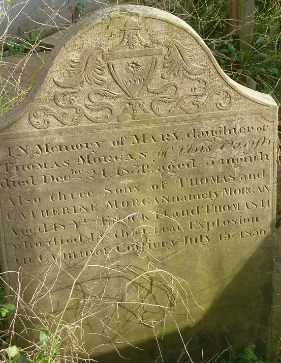 Gravestone of four children of Thomas and Catherine Morgan who died in 1831 and 1856, and were buried at the Cymmer Independent Chapel, Cymmer, Rhondda Cynon Taf, Wales. (Cropped version of File:Morgan_gravestone_Cymmer_Independent_Chapel.jpg.)